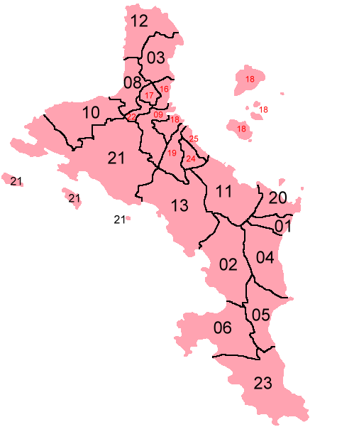 Map of Mahe Island, Seychelles showing Les Mamelles District; created with the GIMP. Made by User:Acntx.